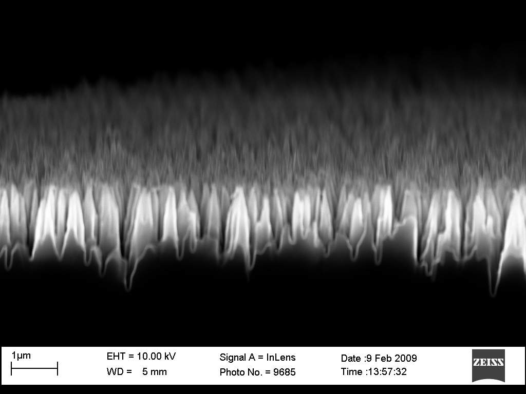 Scanning electron microscope image of reactive ion etched (RIE) black silicon.